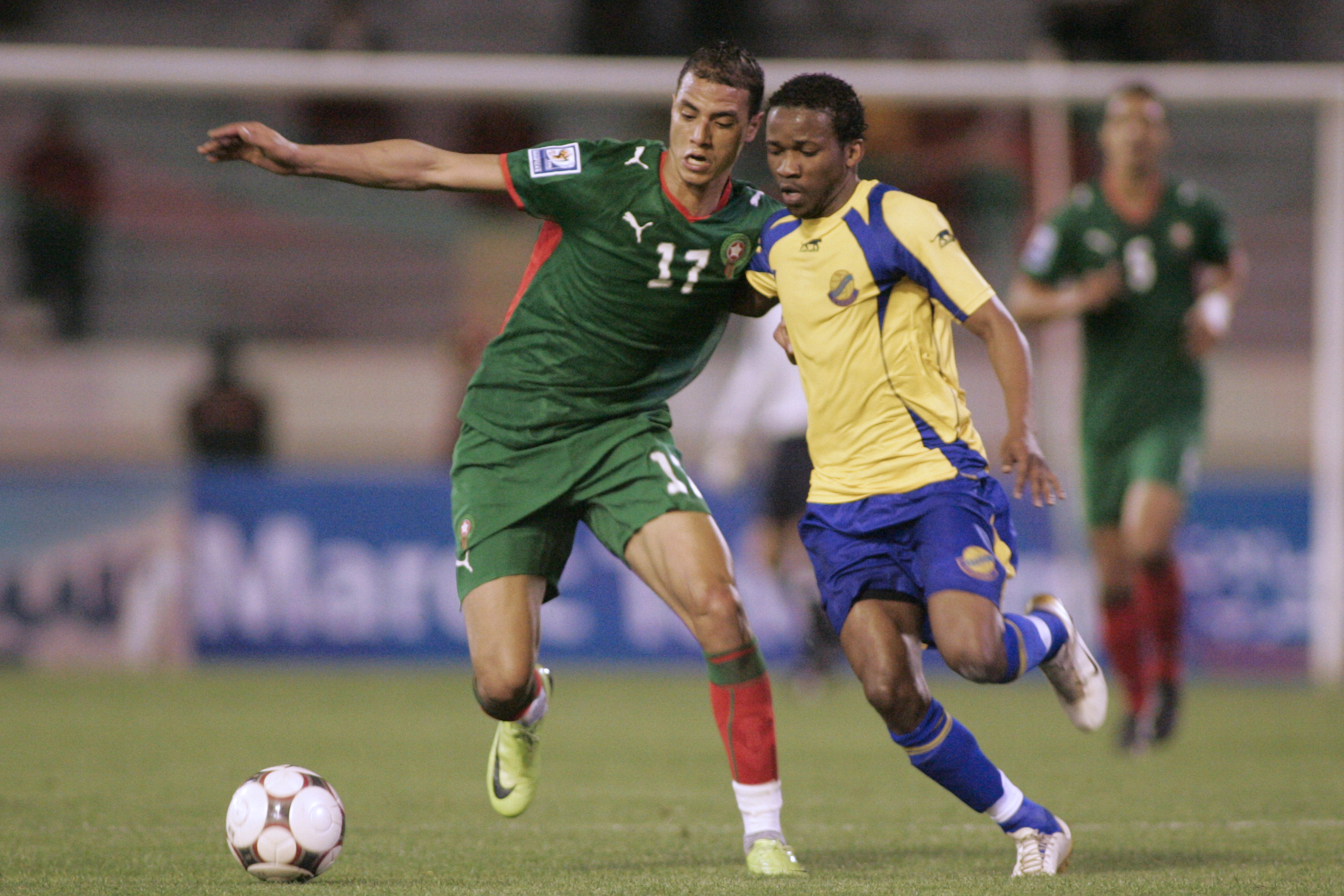 Marouane Chamakh of Morocco (left) and Stephane Nguema of Gabon (right) during an international match of their national teams. Gabon won the match against Morocco with 2-1.